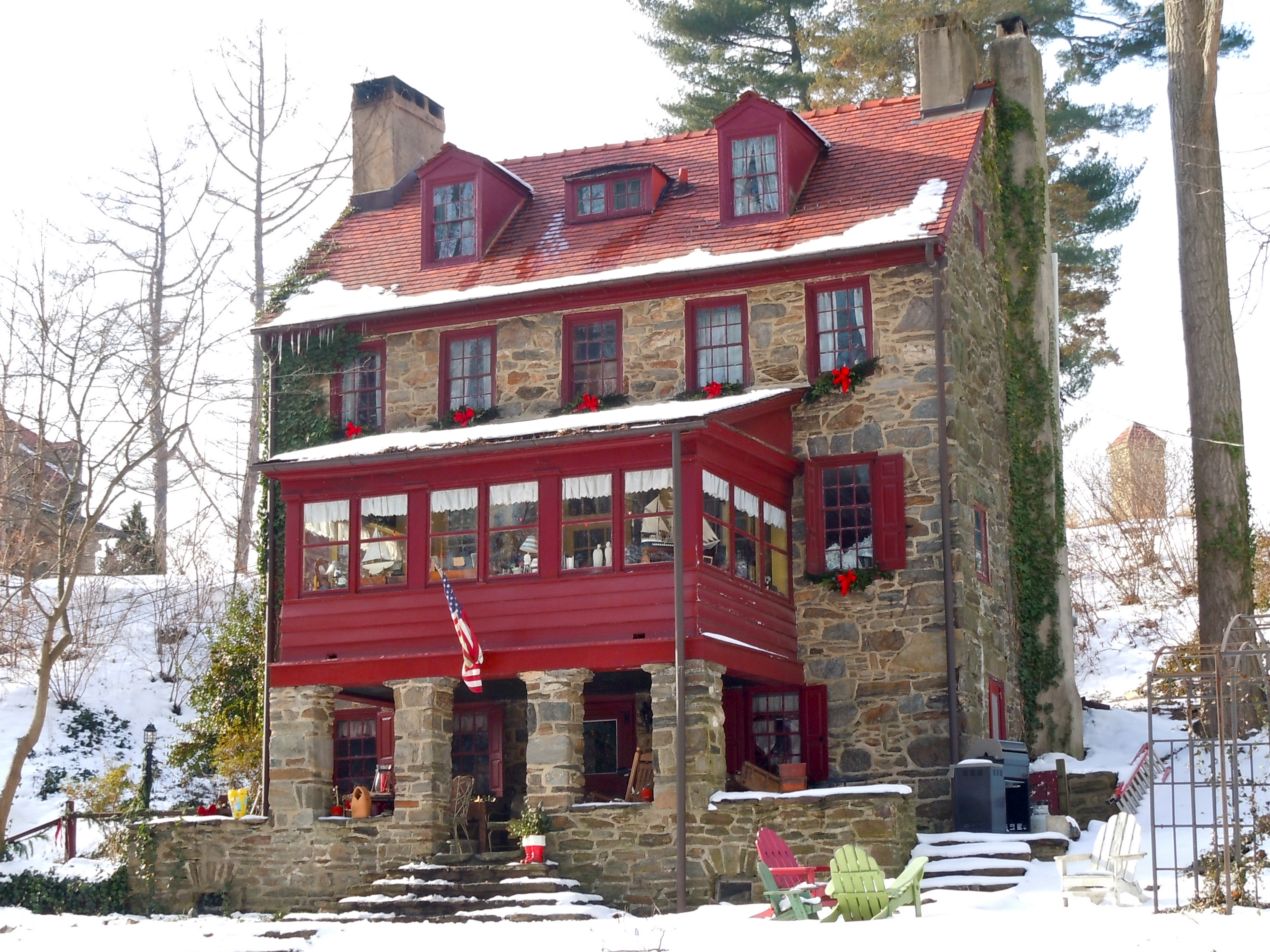 Bishop White House in Rose Valley Historic District, on the NRHP since July 19, 2010. District is roughly bounded by Ridley Creek, Woodward Rd., Providence and Brookhaven Rds. and Todmorden Ln. within Rose Valley Borough, Pennsylvania. This house, c. 1695, is on Old Mill Lane. Named for Bishop William White, chaplain to the Continental Congress, who lived here in 1793, avoiding the Yellow Fever Epidemic in Philadelphia. Many of the buildings in the district were designed by architect Will Price. On this house he added the porch and the tile roof. Rose Valley, PA